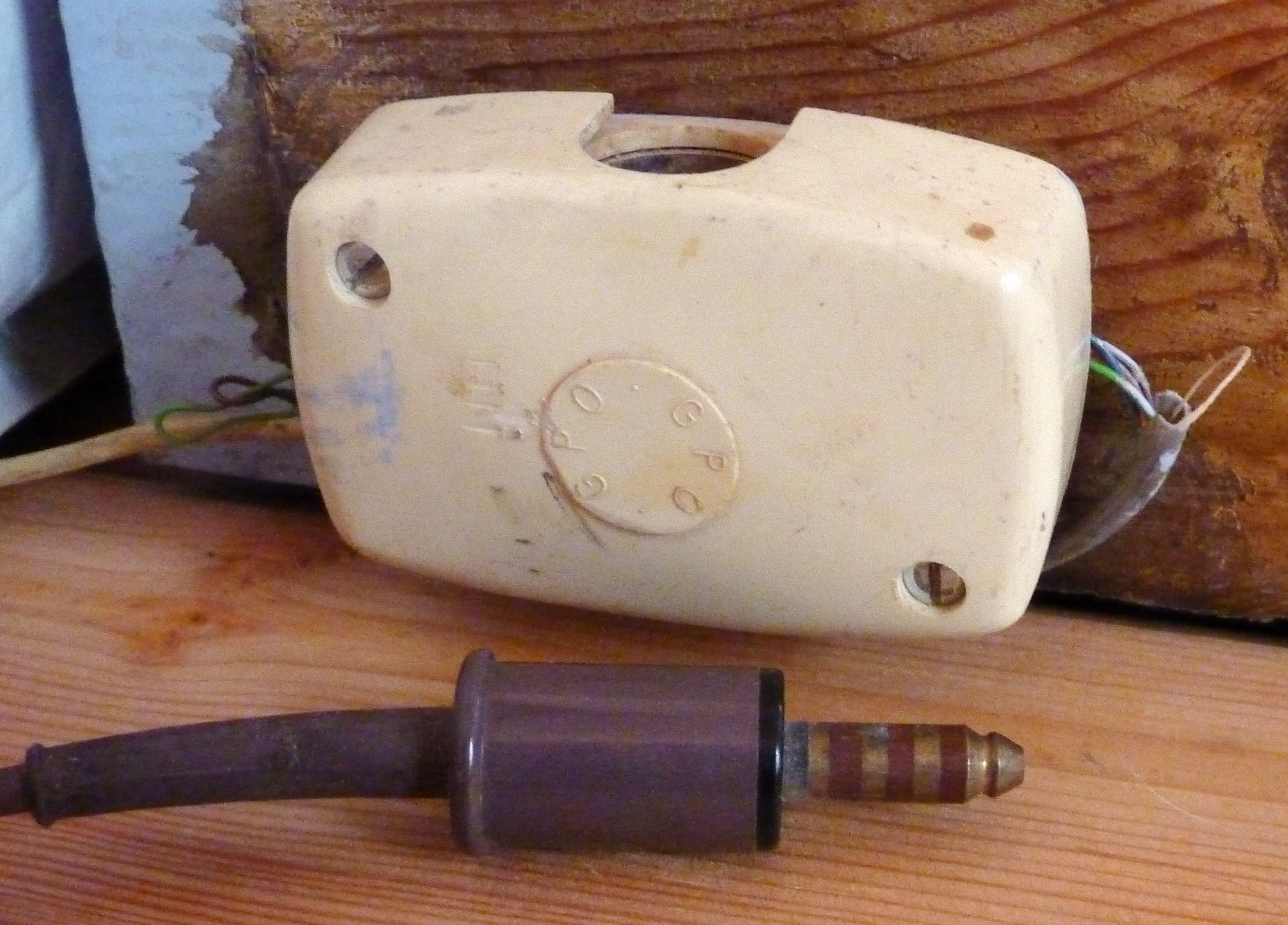 UK GPO plan 4 telephone socket and plug (still in use - my DSL connection goes through this)